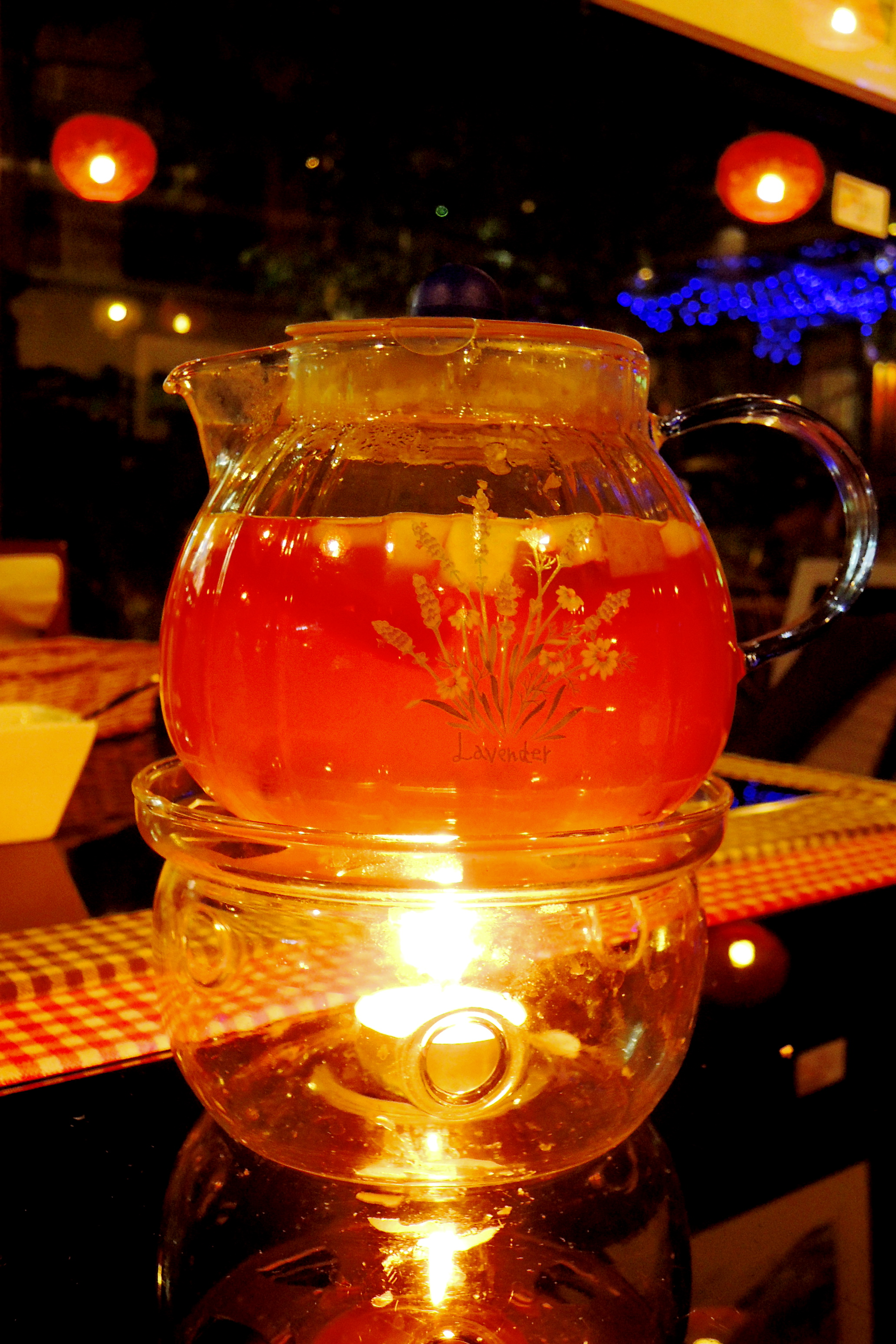 Hot fruit tea in glassware teapot, keeping warm with a candle.